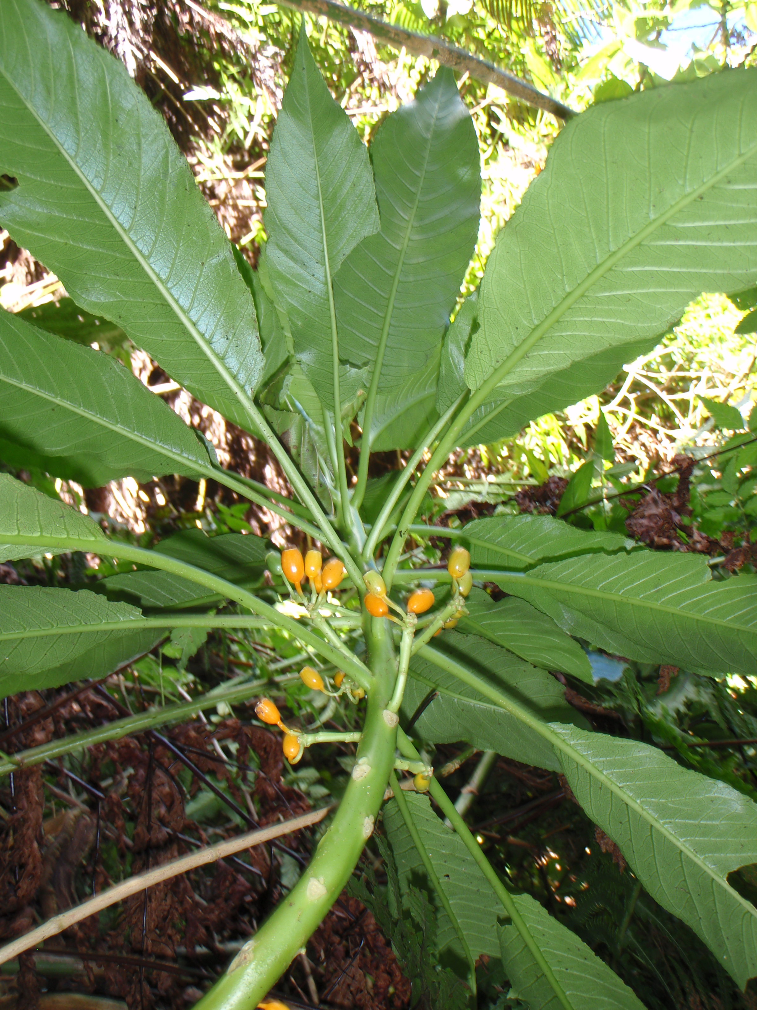 Cyanea profuga